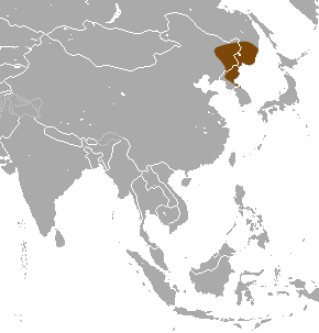 Ussuri Shrew (Sorex mirabilis) range